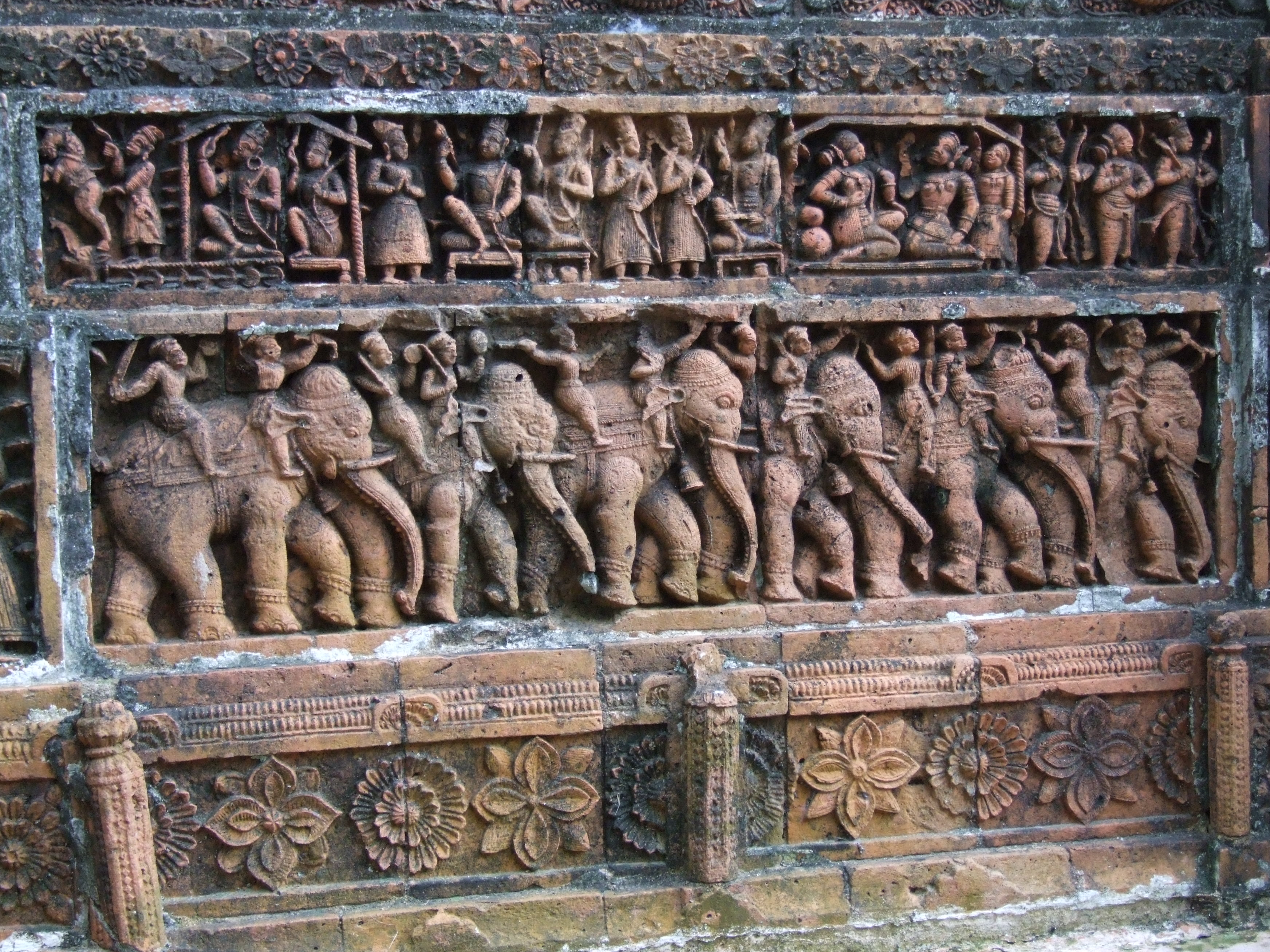 Kantanji's Temple in Dinajpur, Bangladesh. Photograph taken by: Saiful Aziz Shamsir.